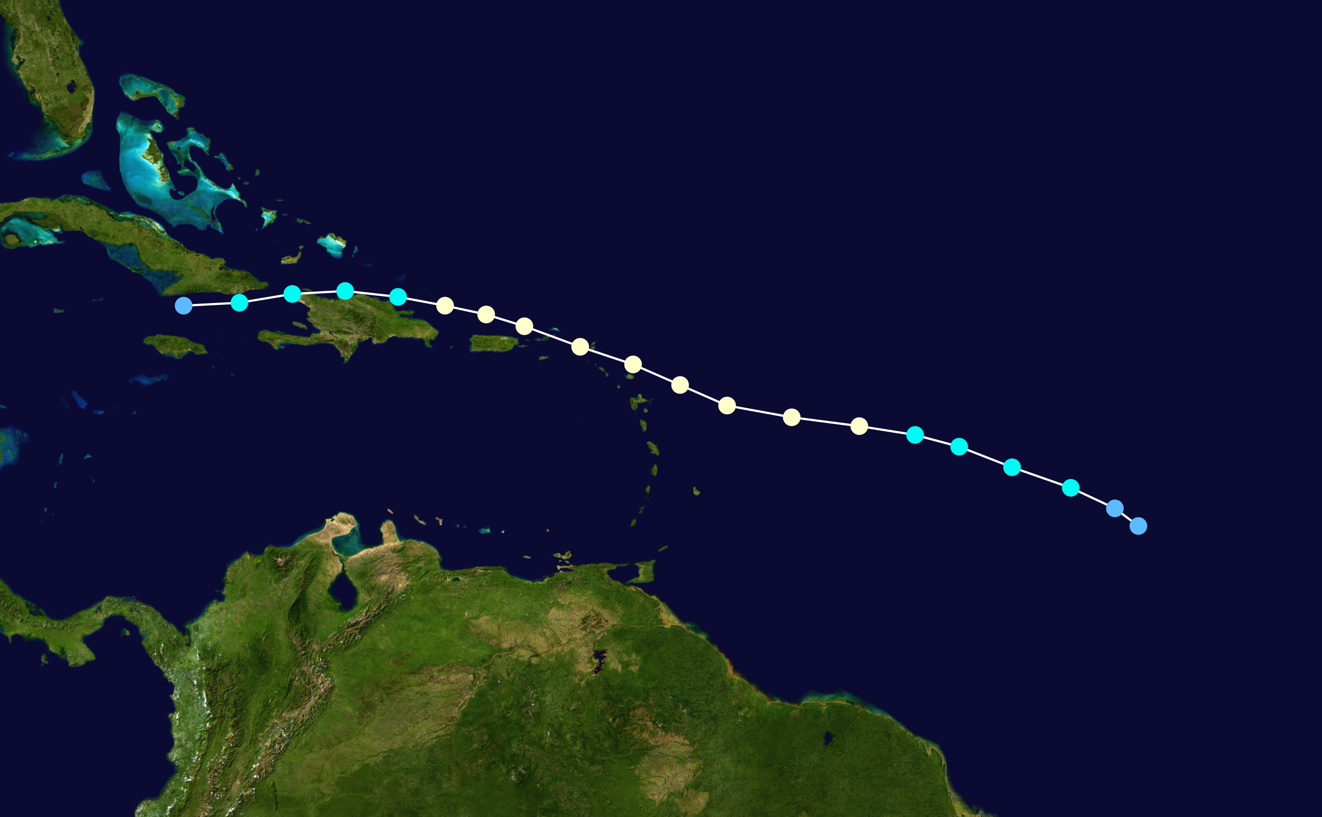 Track map of Hurricane Debby of the 2000 Atlantic hurricane season. The points show the location of the storm at 6-hour intervals. The colour represents the storm's maximum sustained wind speeds as classified in the Saffir–Simpson scale (see below), and the shape of the data points represent the nature of the storm, according to the legend below. Saffir–Simpson scale Tropical depression≤38 mph≤62 km/h Category 3111–129 mph178–208 km/h Tropical storm39–73 mph63–118 km/h Category 4130–156 mph209–251 km/h Category 174–95 mph119–153 km/h Category 5≥157 mph≥252 km/h Category 296–110 mph154–177 km/h Unknown Storm type Tropical cyclone Subtropical cyclone Extratropical cyclone / Remnant low / Tropical disturbance